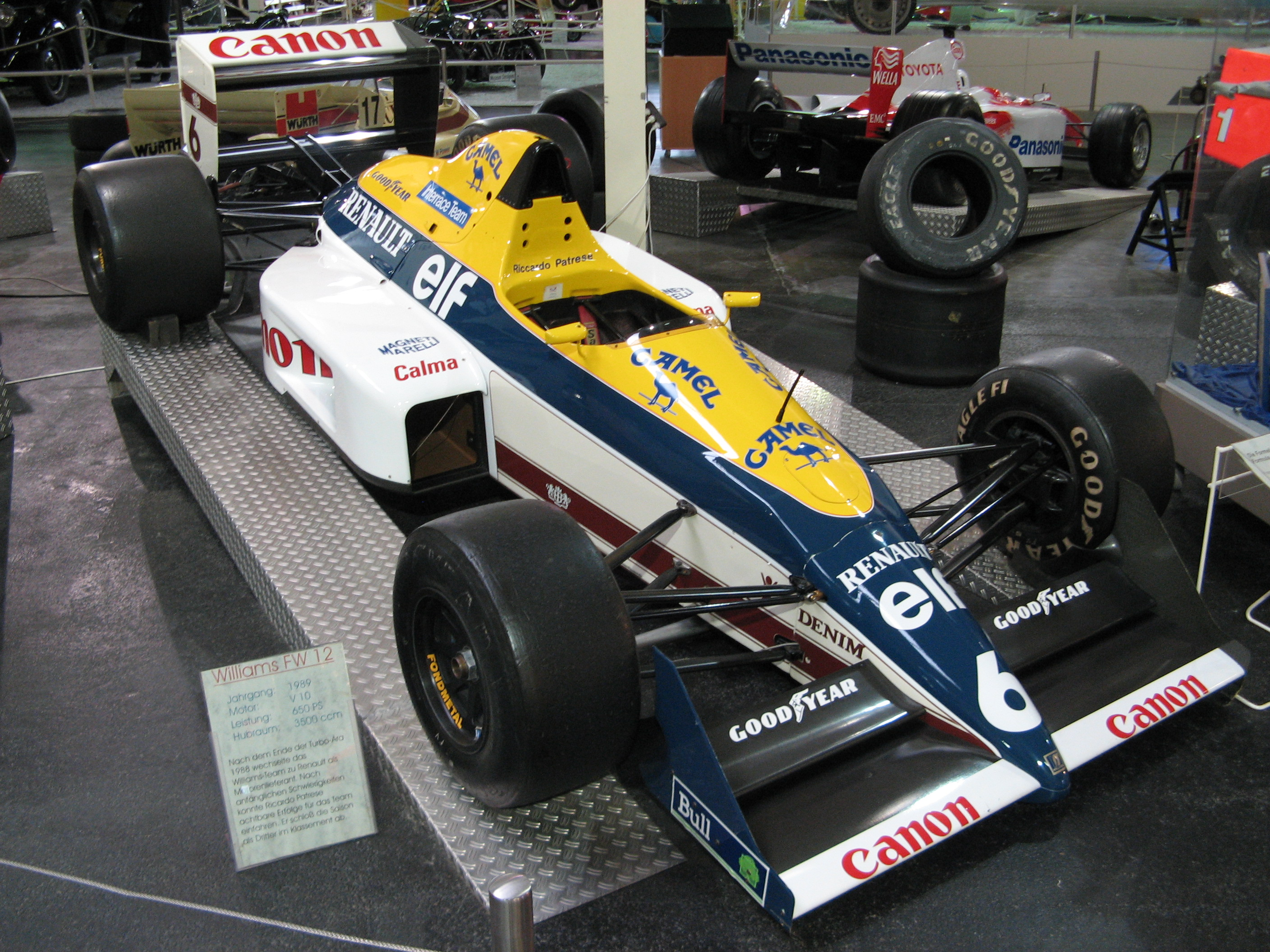 Williams Renault FW12, 1989, Driver Ricardo Patrese, Exhibition Sinsheim, Germany